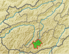 Sokhondo Nature Reserve, area in green, southwest sector of Zaybaykalsky Krai, Russia